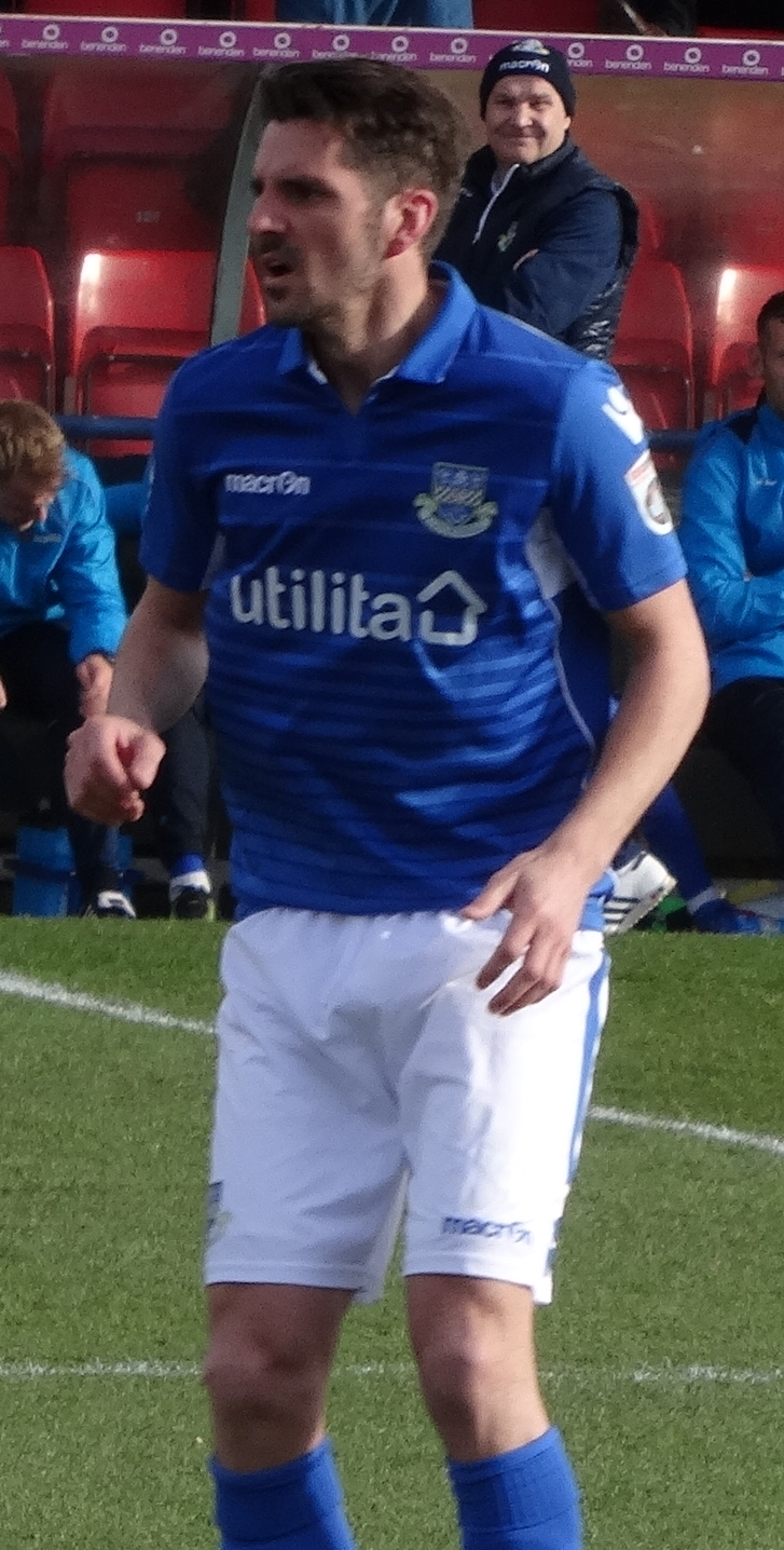 Ben Strevens playing for Eastleigh against York City at Bootham Crescent, York on 4 March 2017